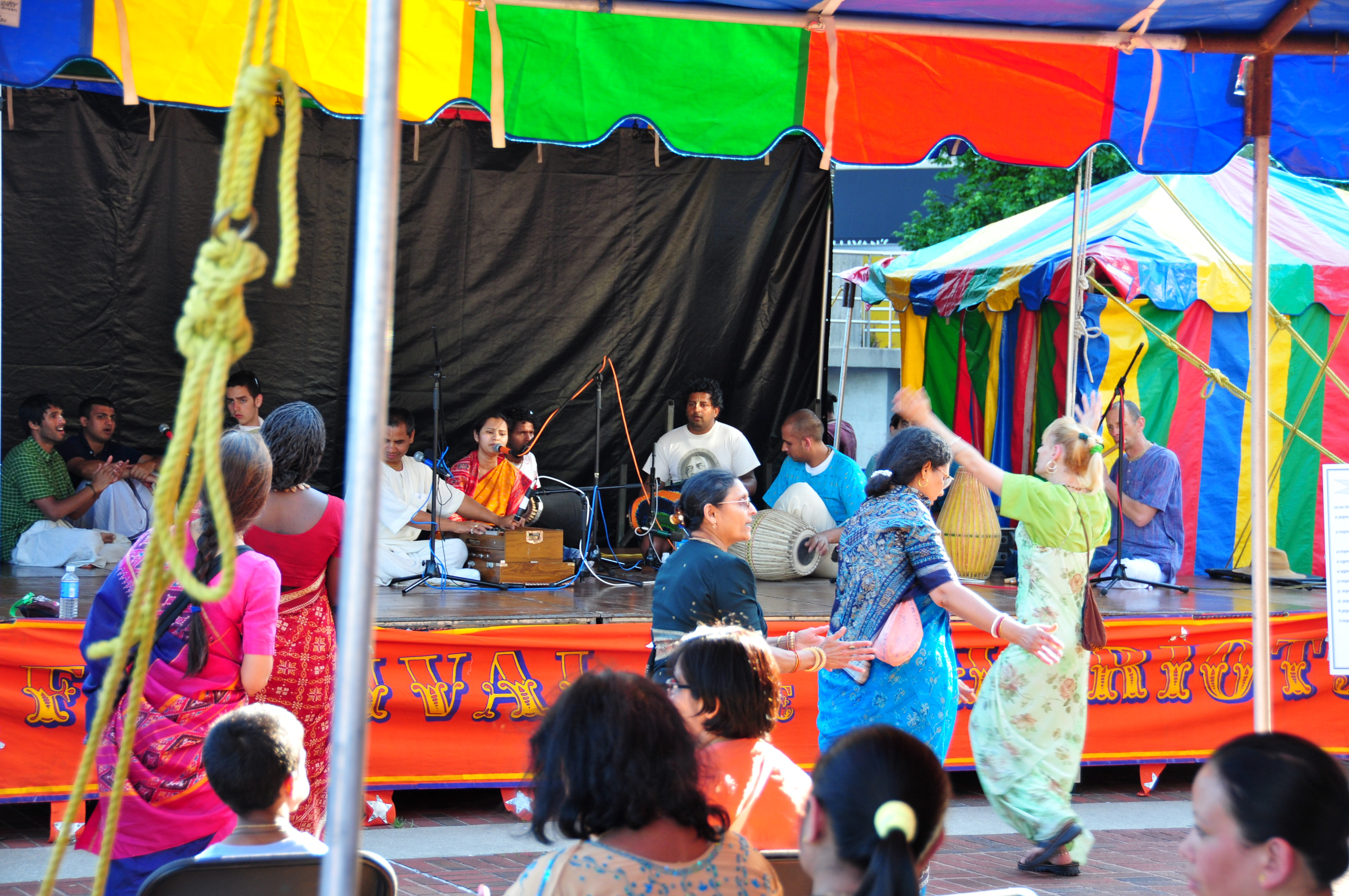 Festival Of India in Baltimore by ISKCON on May 30, 2009